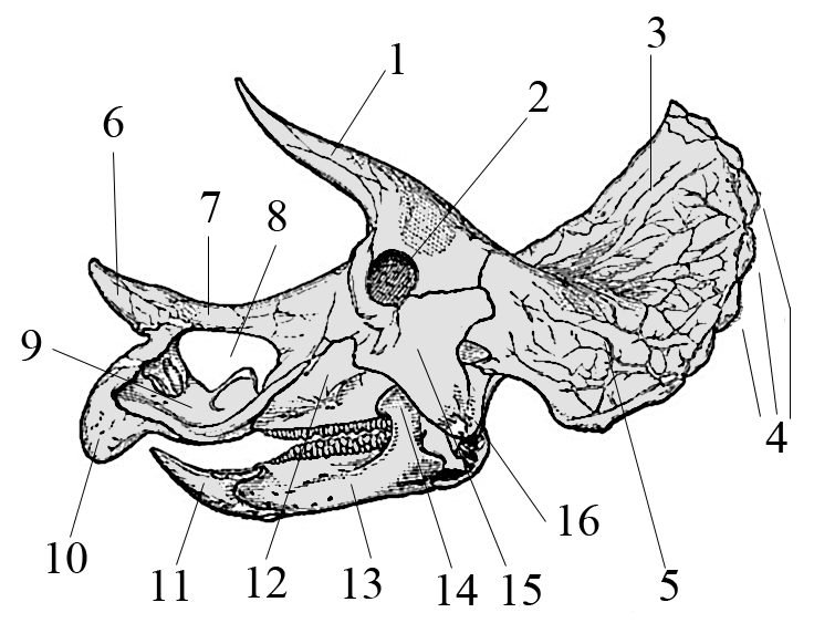 Part of the skull of Triceratops Triceratops prorsus Postorbital horn core (brow horns) Orbital (eye socket) Parietal Epoccipitals (scallops) Squamosal Nasal horn core (nose horn) Nasal Nostrail Premaxilla Rostral Predentary Maxilla Dentary Coronoid Jugal Epijugal